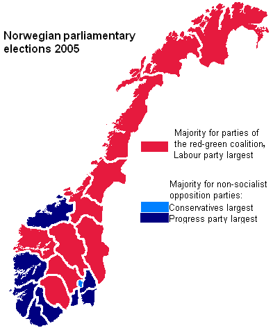 Map of the counties of Norway, showing the elections results for the parliamentary elections of 2005.